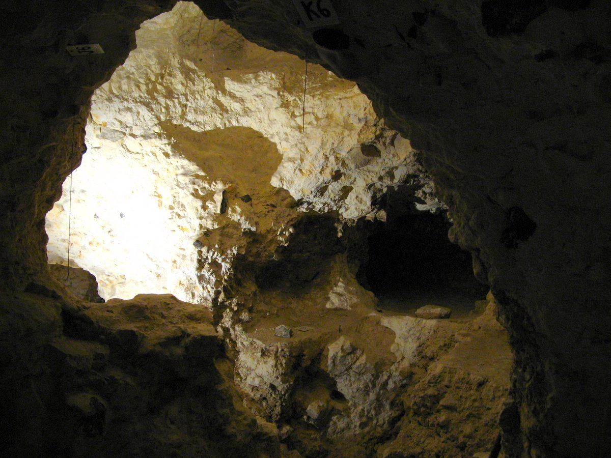 neolithic mines of Spiennes, Belgium